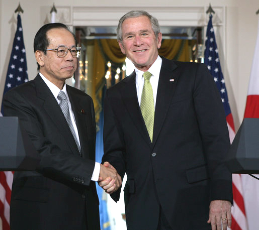 Japanese Prime Minister Yasuo Fukuda and US President George W. Bush exchange handshakes following their joint statement at the White House.